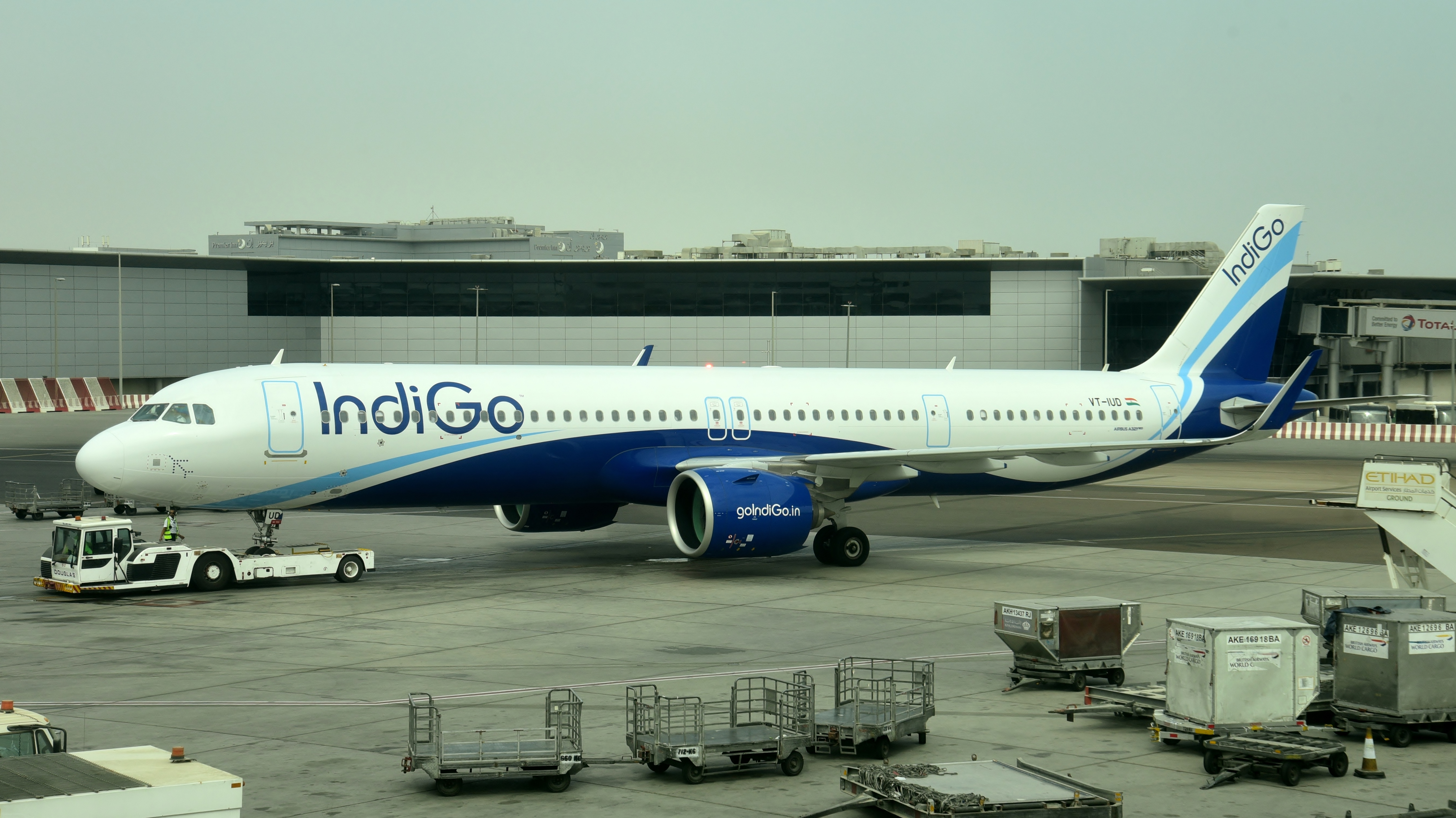 IndiGo Airbus A321neo VT-IUD at Abu Dhabi International Airport (AUH/OMAA), United Arab Emirates